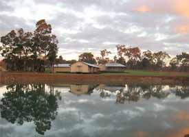 Picture of St Mary's at Metricup: The Lady Treatt Centre for Learning and Leadership, showing the main living area.